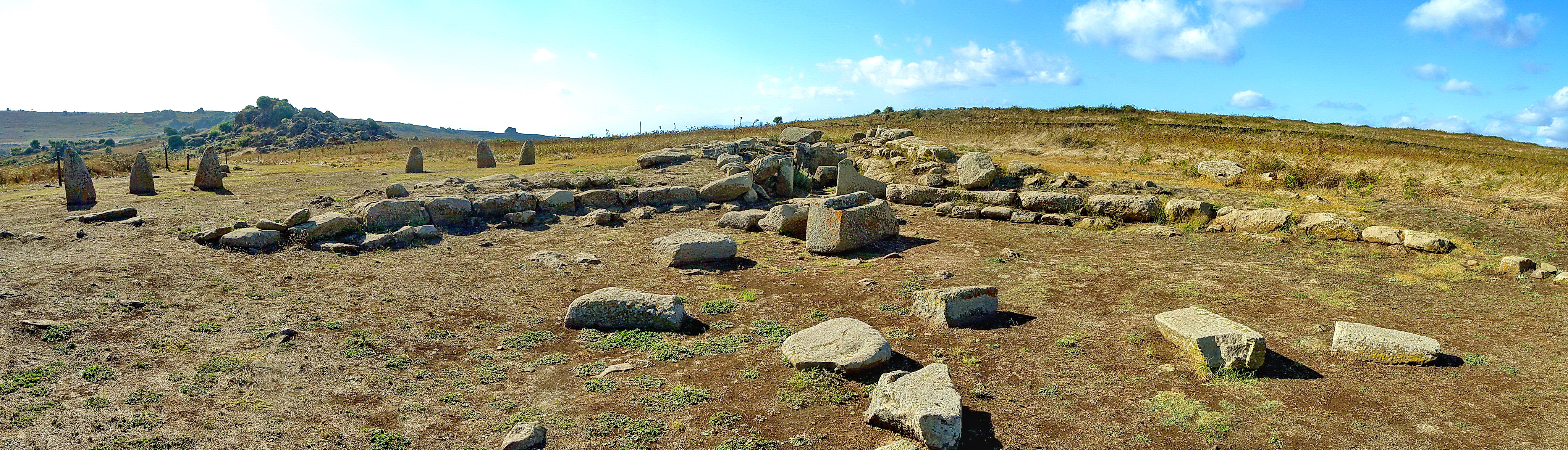 domus de janas in Macomer-Tamuli